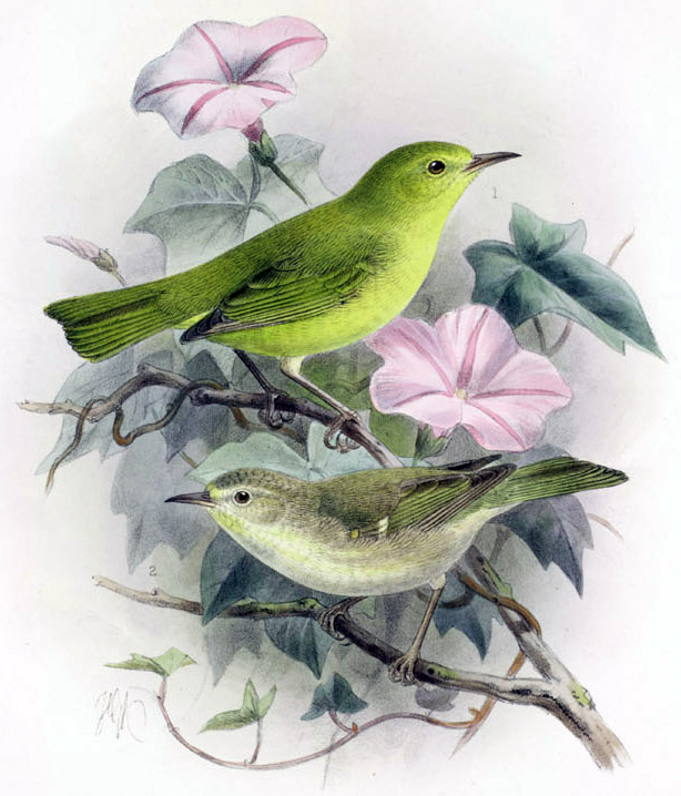 Illustration showing Oreomyza montana Which is now a synonym of the Lanaʻi ʻAlauahio (Paroreomyza montana montana) From Avifauna of Laysan By Lionel Walter Rothschild, 2nd Baron Rothschild (8 February 1868 – 27 August 1937) By John Gerrard Keulemans (1842-1912) (Dutch bird illustrator), which was issued from 1893-1900.